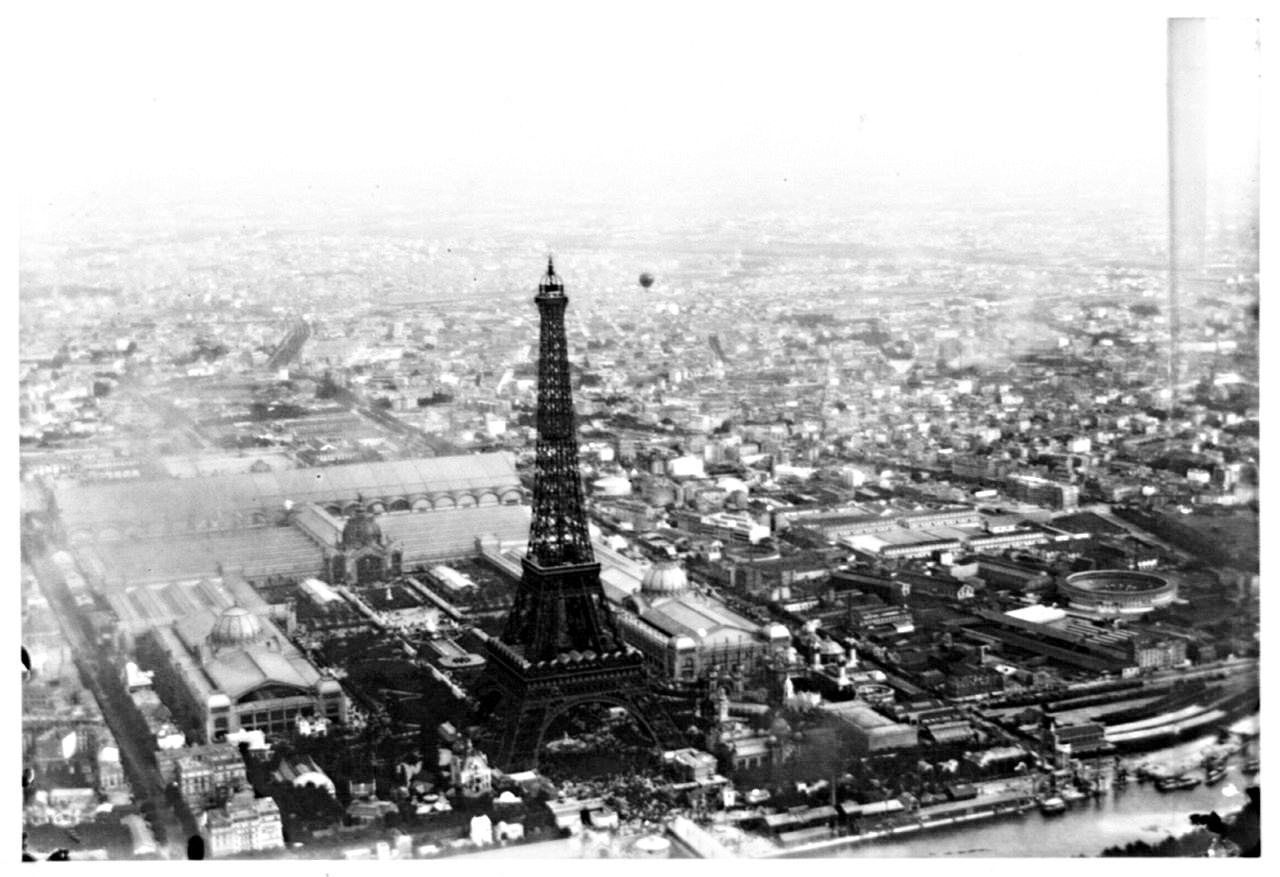 View of the Eiffel tower and the grounds of the Exposition Universelle on the Champs de Mars with Seine and the Pont d'Iena in the foreground, Paris, taken from a balloon above the Trocadero.